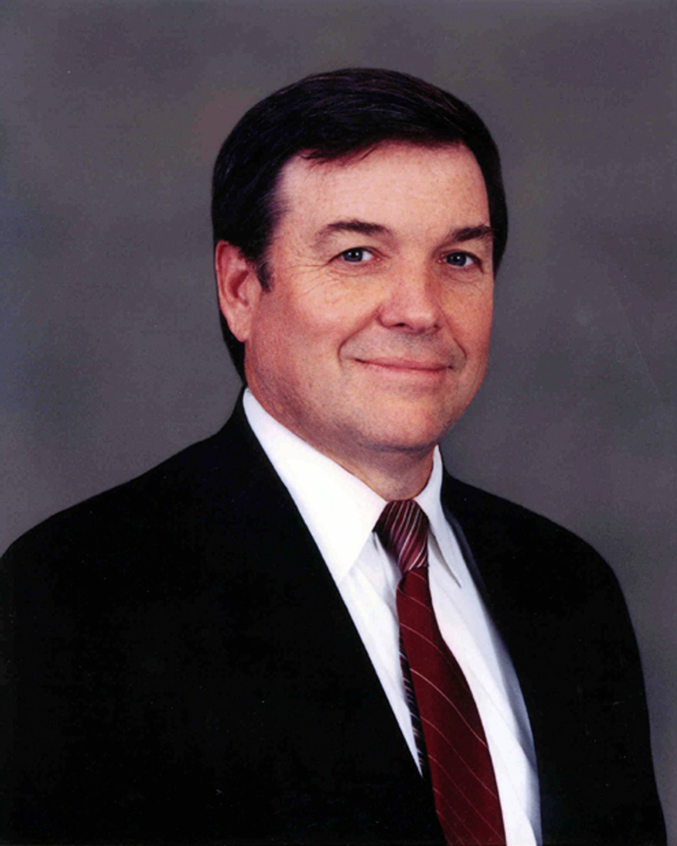 Duncan Hunter, U.S. Congressman.